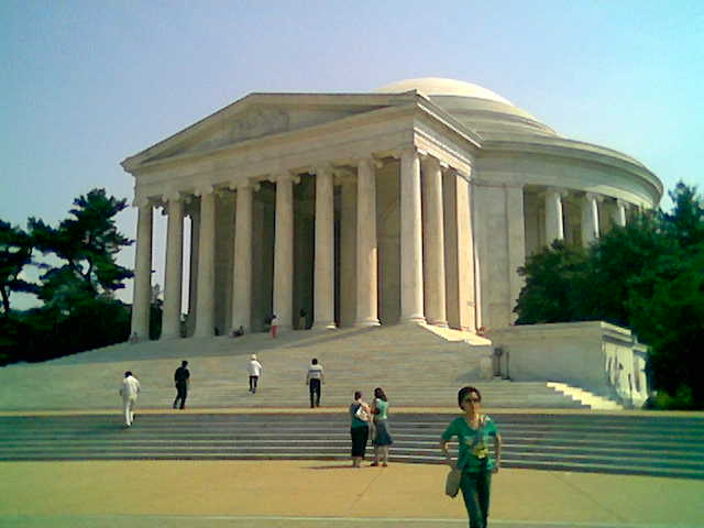 The Jefferson Memorial